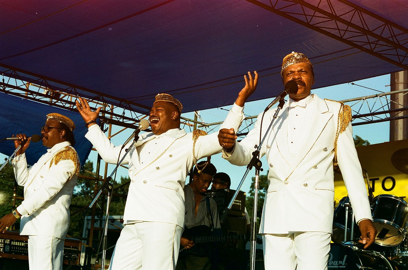 Baltimore M.D. druid hill park 1995